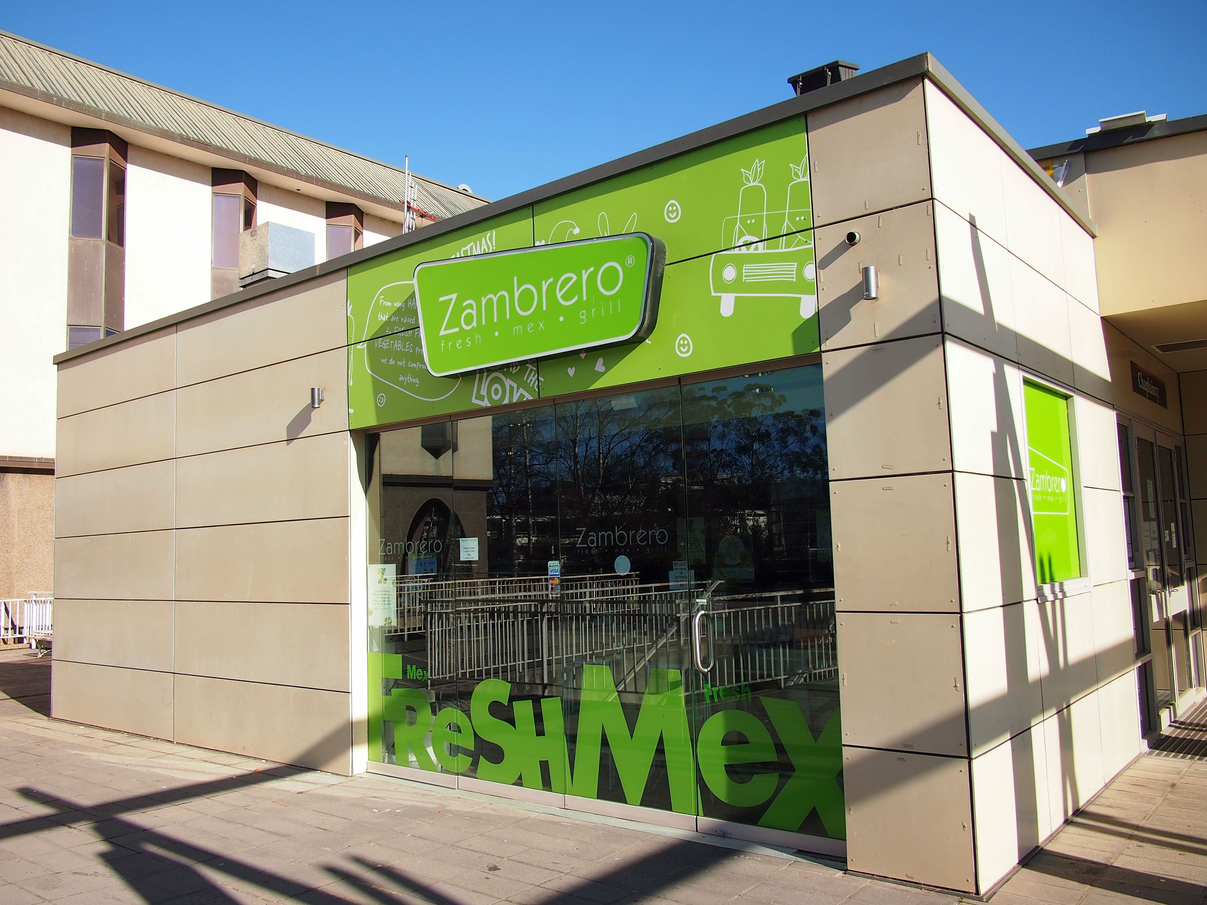 The Zambrero outlet at the Australian National University